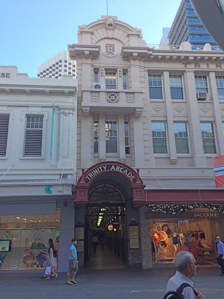 Hay street entrance to Trinity Arcade, Perth, Western Australia